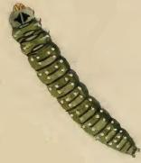 Stainton’s Natural History of the Tineina (1855–1873): Parornix petiolella